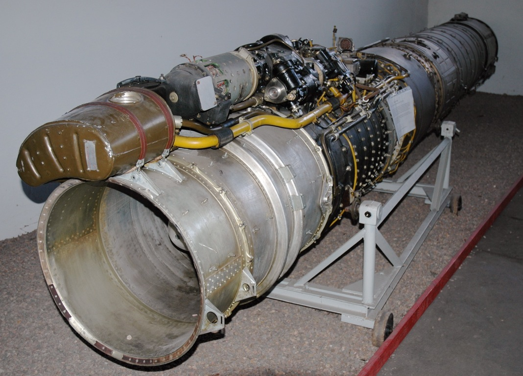 Tumansky RD-9B turbojet engine (Museum of Polish Aviation, Cracow)